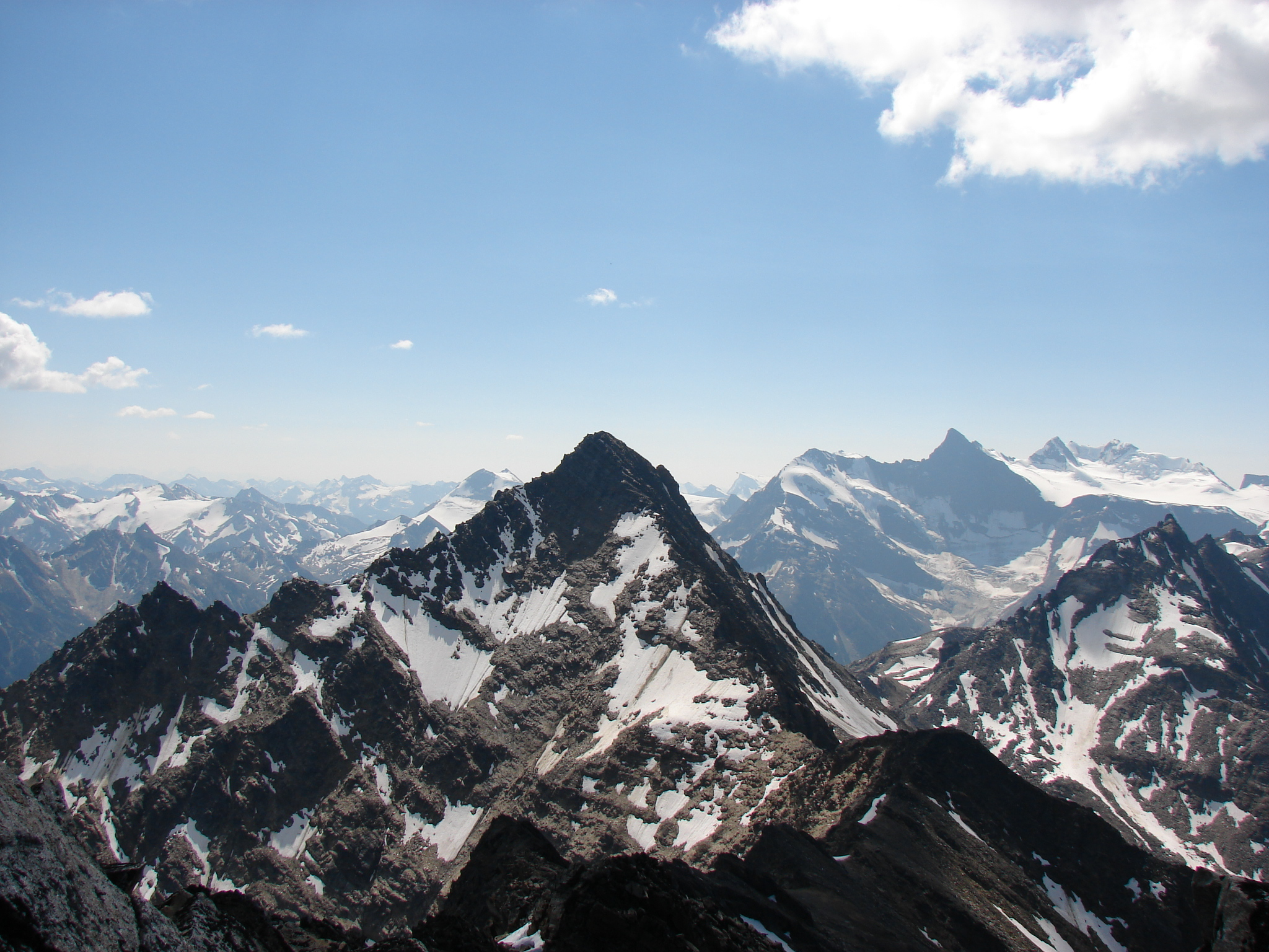 Peaks of the Premier Range, Cariboo Mountains, from the summit of Mica Mountain, British Columbia. Mt Arthur Meighan in distance at right.